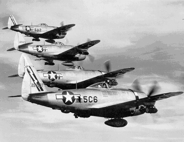 86th Fighter Group P-47 Thunderbolts (USAF)